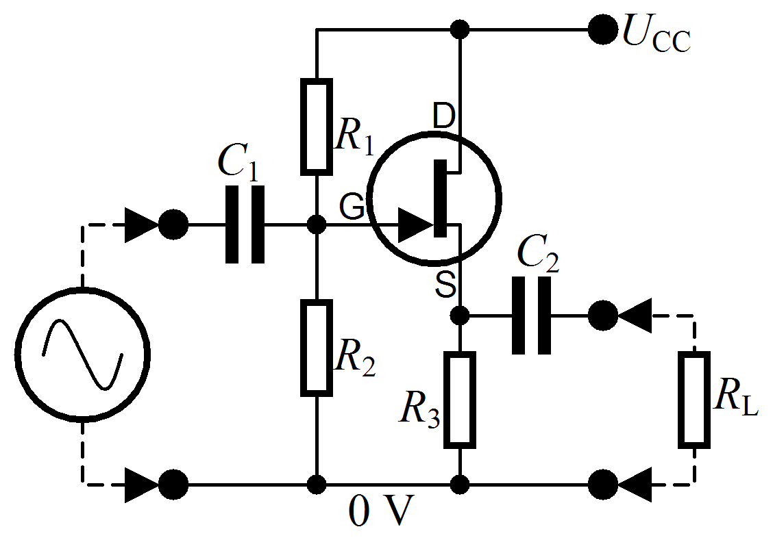 Diagram of Common Drain amplifier stage, utilizing a Field Effect Transistor (FET) Drawn using the "Autoshape" feature in MS Word '97, then converted to PNG in a graphics application